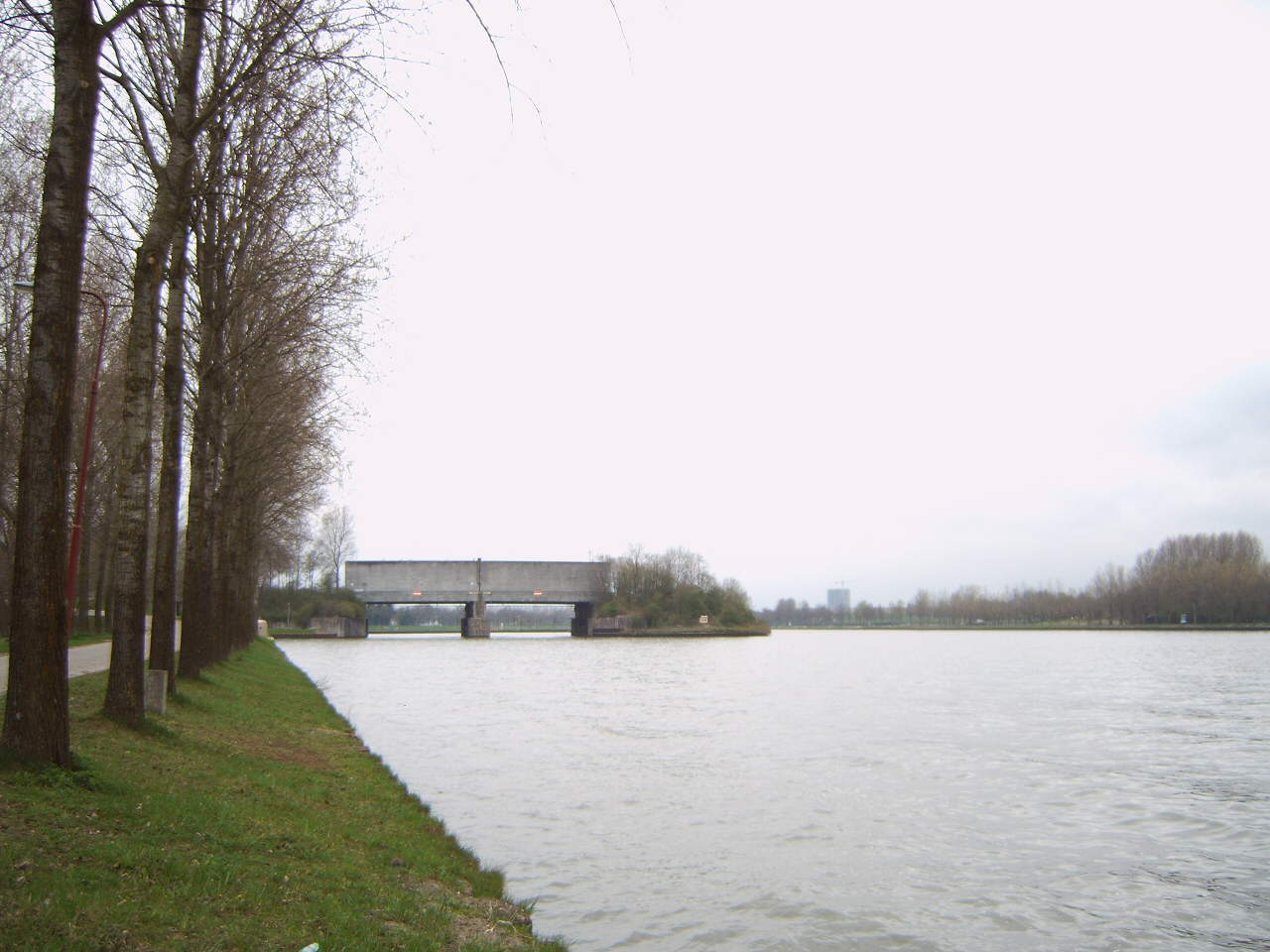 Plofsluis: a defence work in the Amsterdam-Rhine canal (Amsterdam-Rijnkanaal), near Nieuwegein, the Netherlands: a large concrete container, to be filled with rubble and to be blown up in the event of hostilities, thus blocking the canal. Picture used in Nieuwe Hollandse Waterlinie